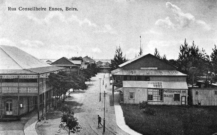 View of Rua Conseleheira Ennes, Beira, Mozambique. Photograph of original postcard c1905, published by The Rhodesia Trading Co. Ltd., Beira